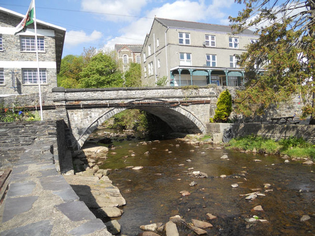 Bridge over the Afon Crafnant at Trefriw, Conwy, Great Britain.